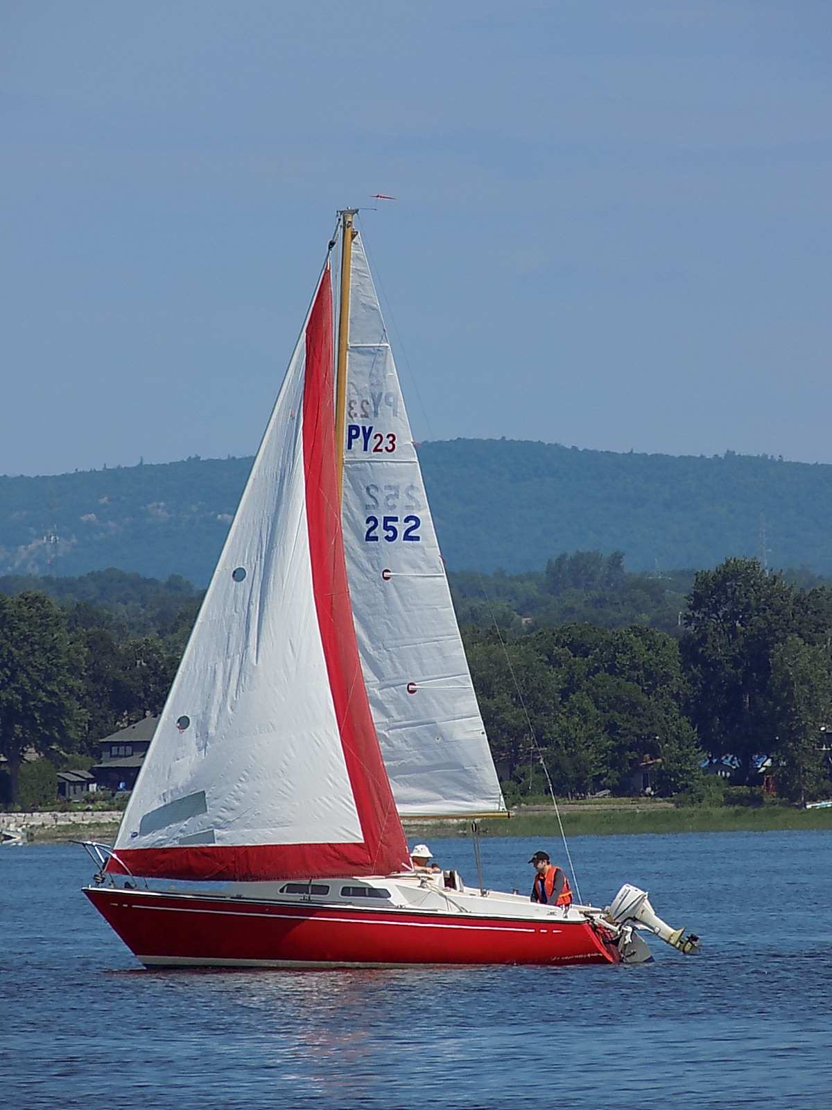 A Paceship PY23 sailboat.